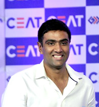 Ravichandran Ashwin receives an award from VVS Laxman at the 2014 CEAT Cricket Ratings Award.